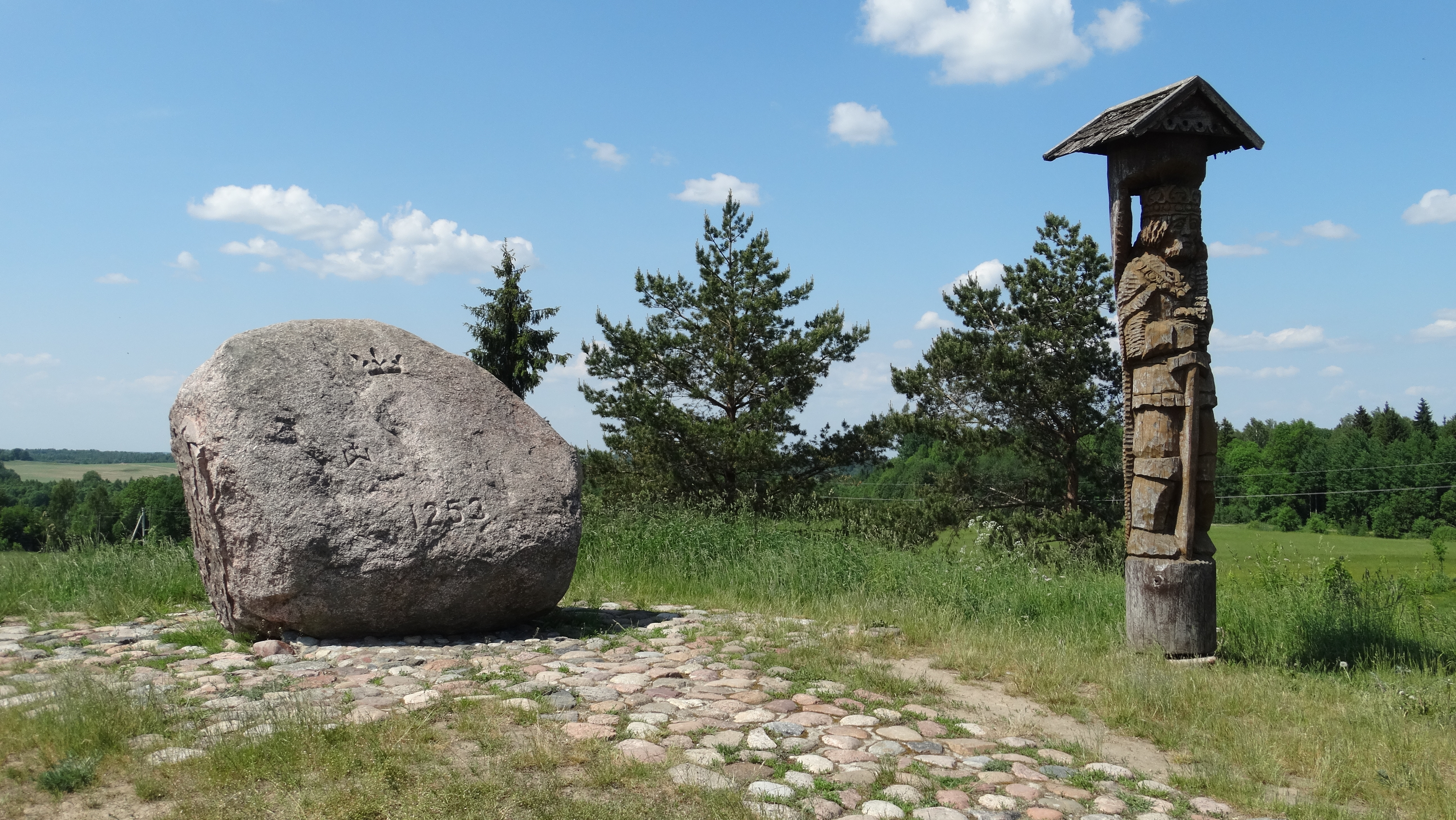 Highest point of the Juozapinė Hill, Juozapinė, h, Vilnius District, Lithuania